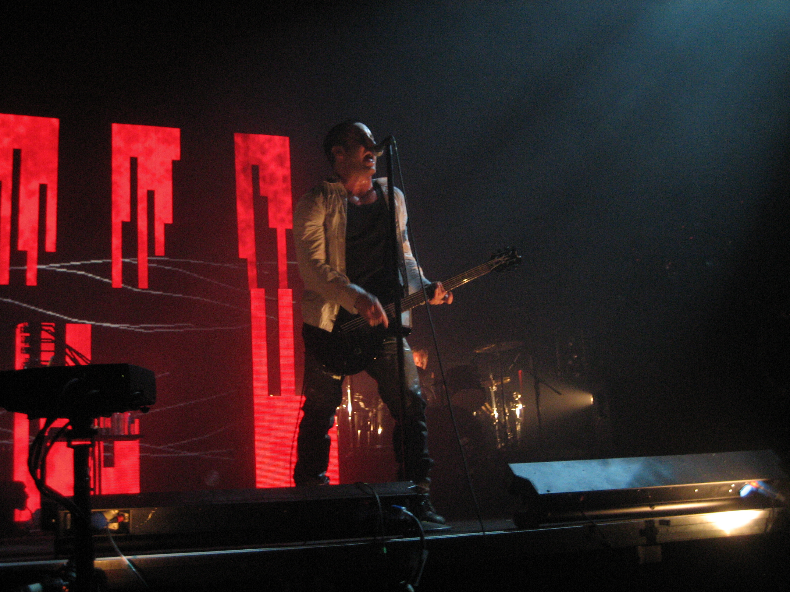 Nine Inch Nails: Live With Teeth in Moline IL